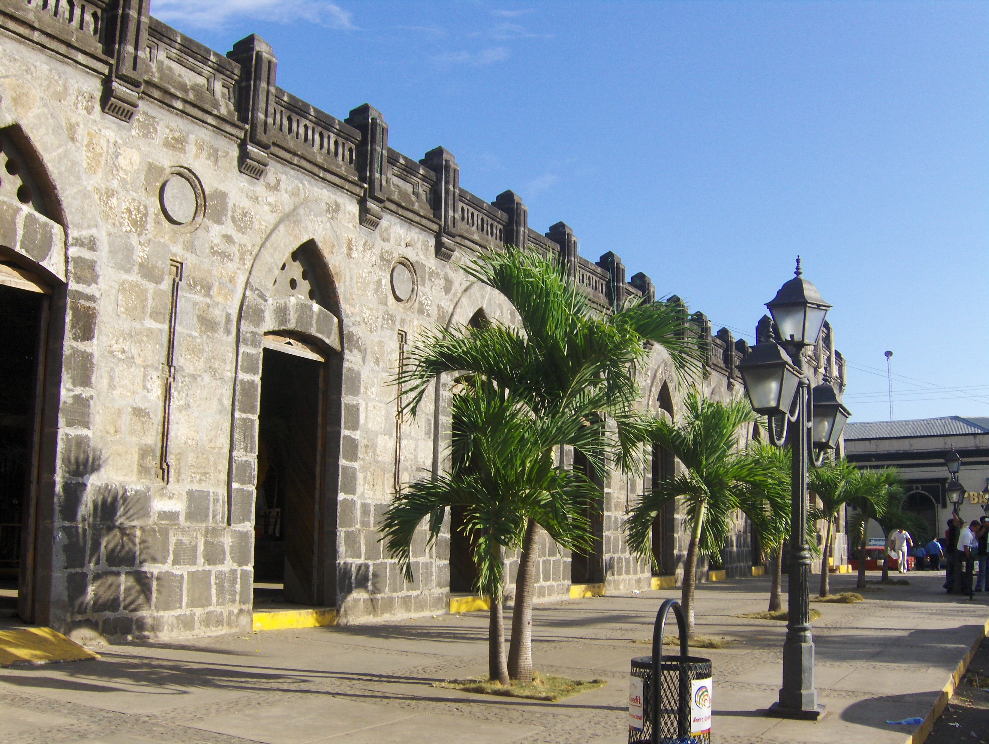 Masaya Market, By Fernando Briceno